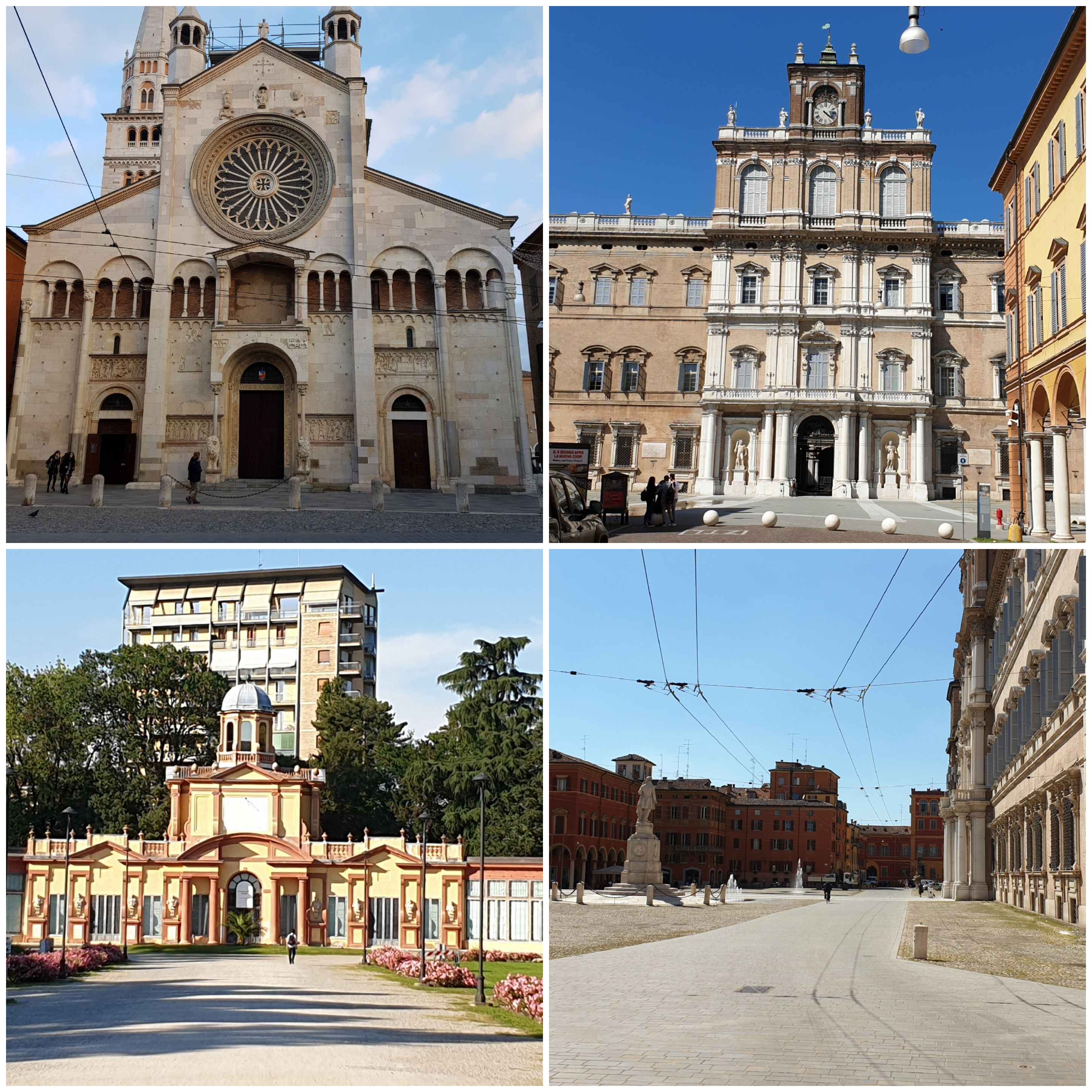 Collage of Modena From Left to Right: Modena's Cathedral, Ducal Palace, Ducal Park, Square in front of Ducal Palace